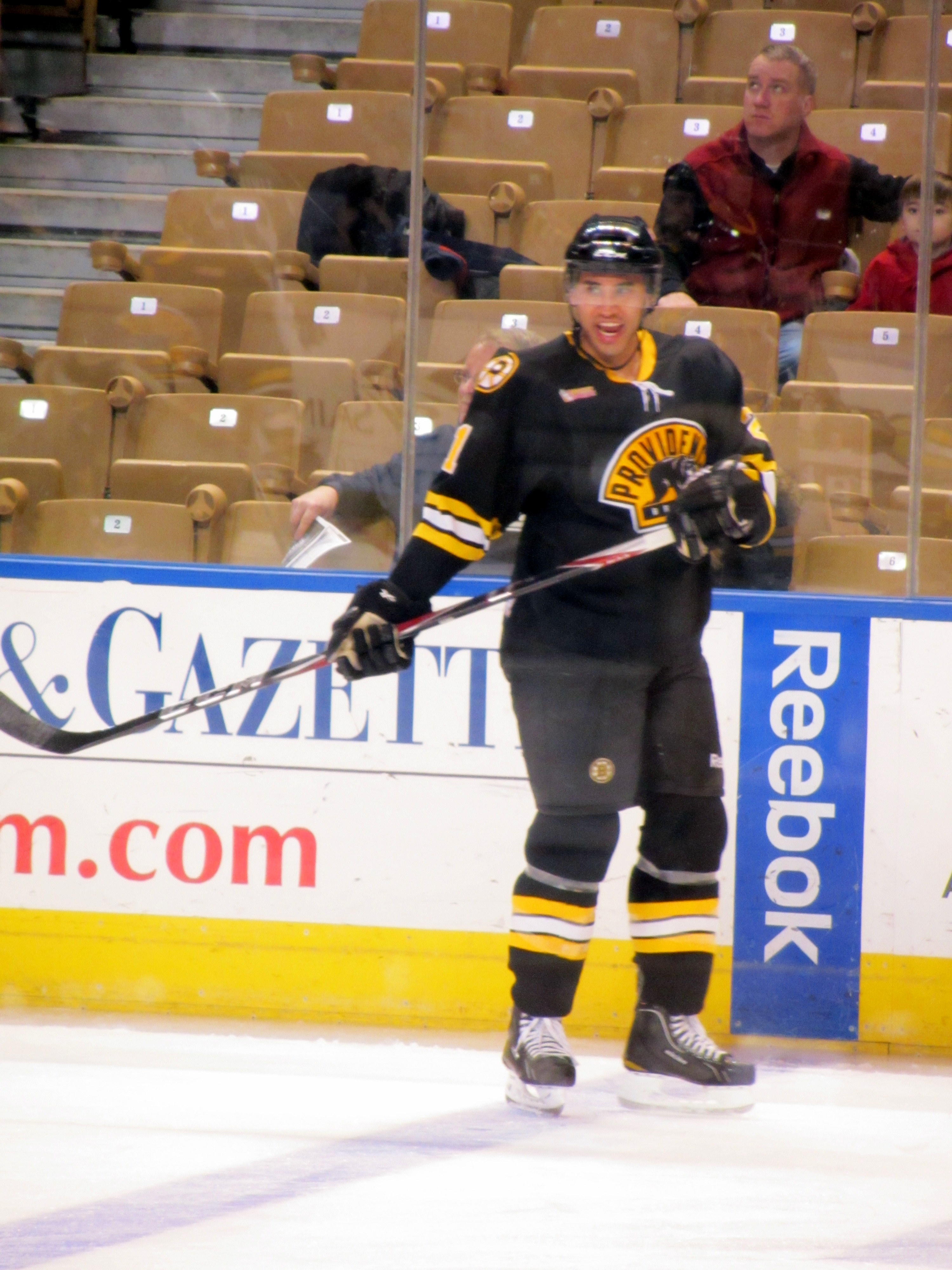 Stefan Chaput of the Providence Bruins jersey.